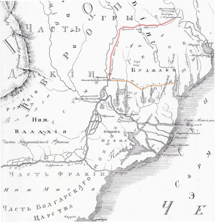 Map of Trajan's Wall by Kaptain Veltman, See also Greuthungi and Antharic wall